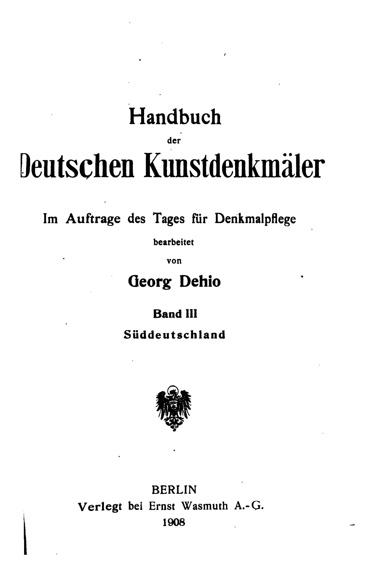 This is a scan of the historical document